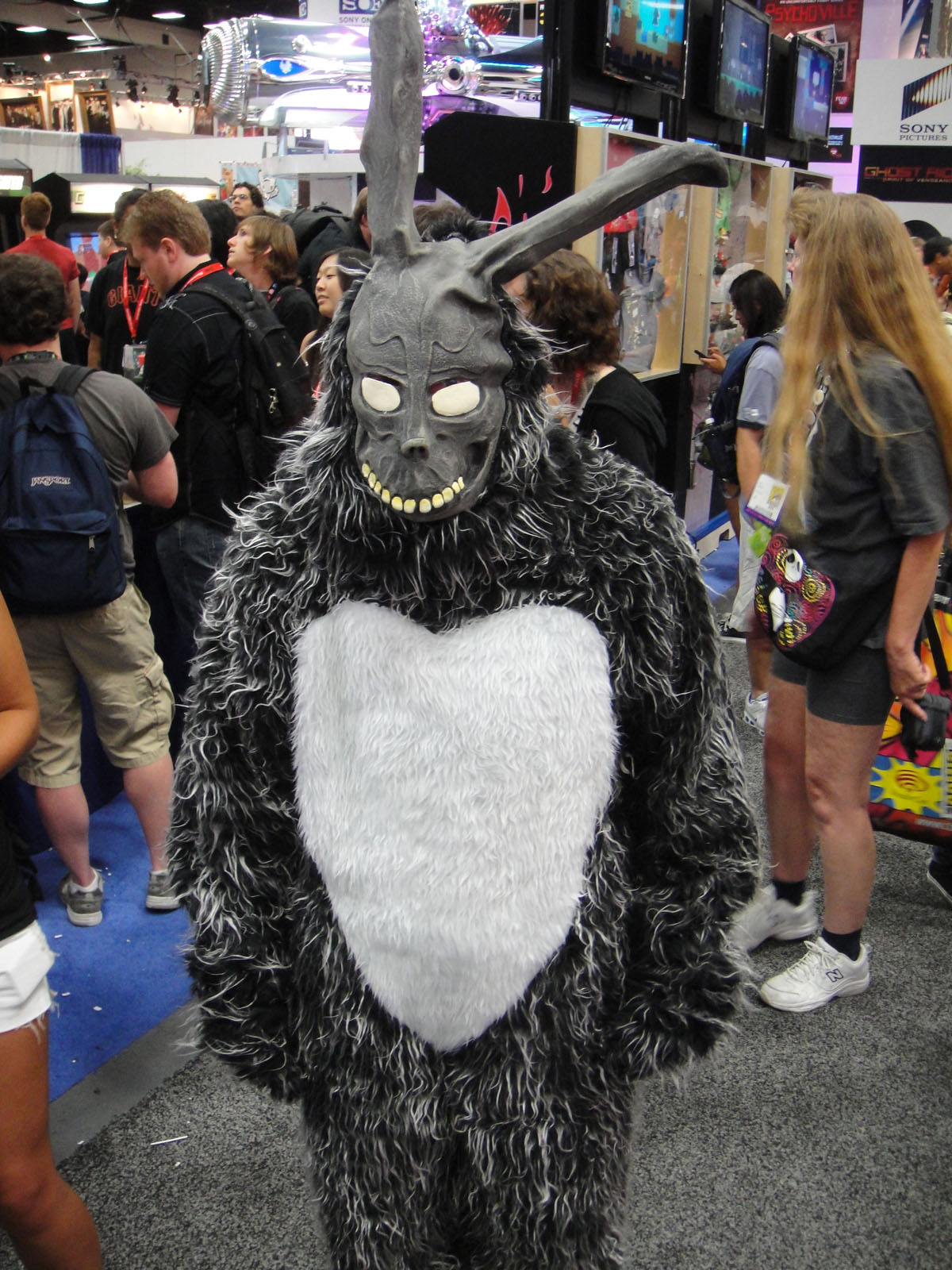 Cosplay of Frank the Bunny from the film Donnie Darko at the 2011 Comic-Con International.